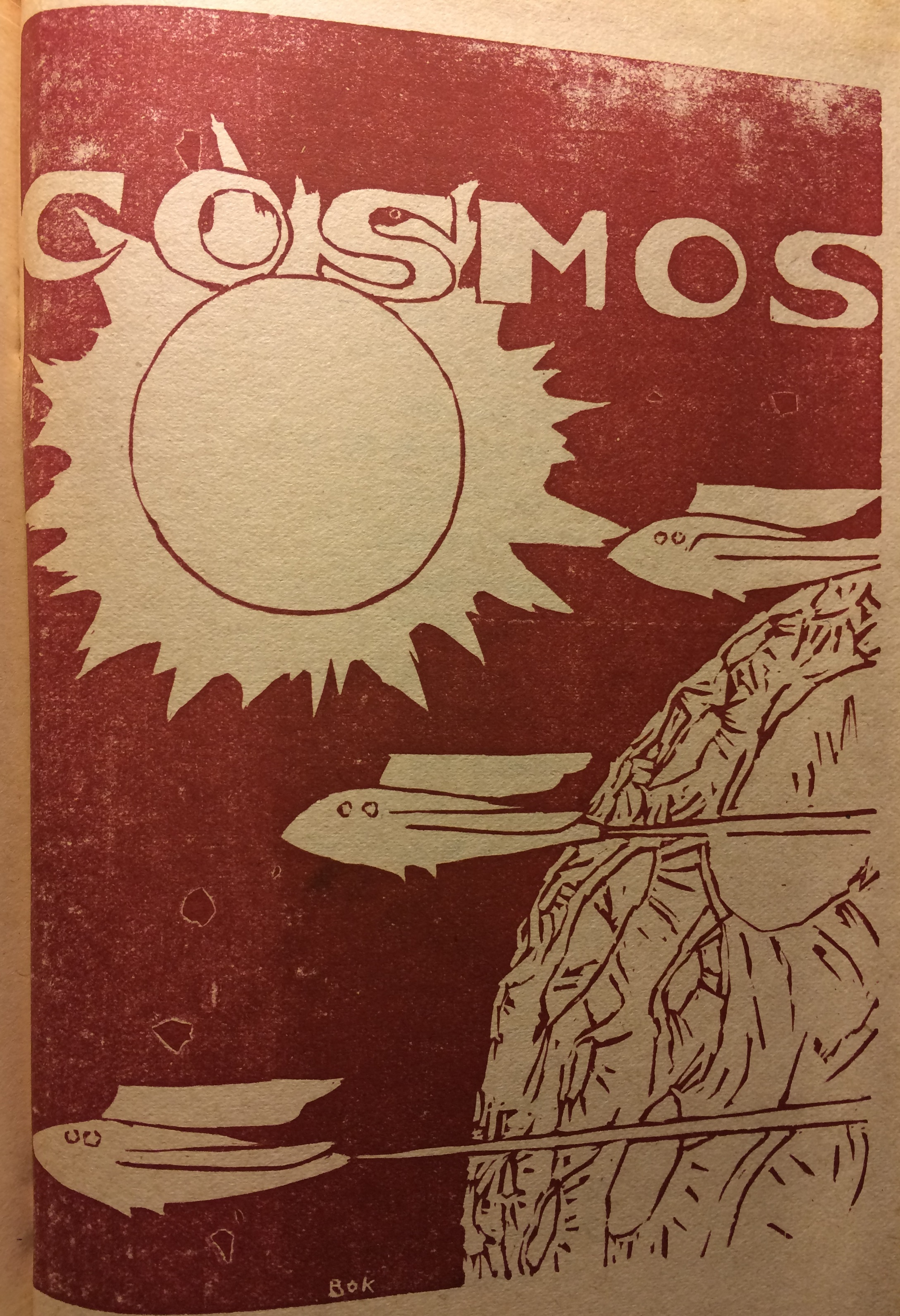 Published illustration for the collabourative serial science-fiction novel 'Cosmos'; appeared with the final chapter. Fantasy Magazine December 1934-January 1935